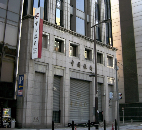 Bank of China Tokyo Japan